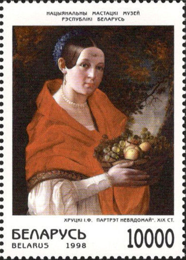 Stamp of Belarus